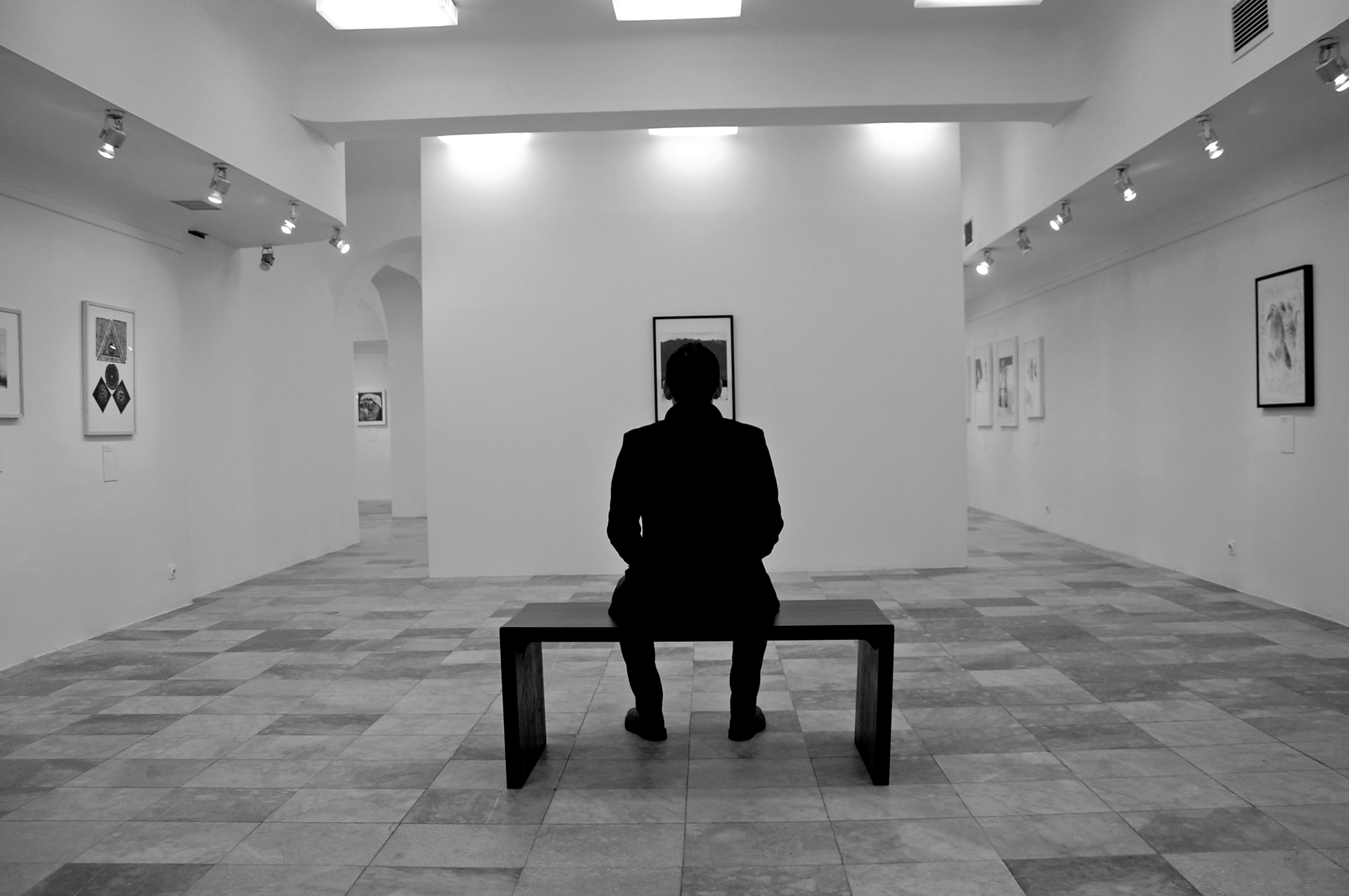 Prishtine